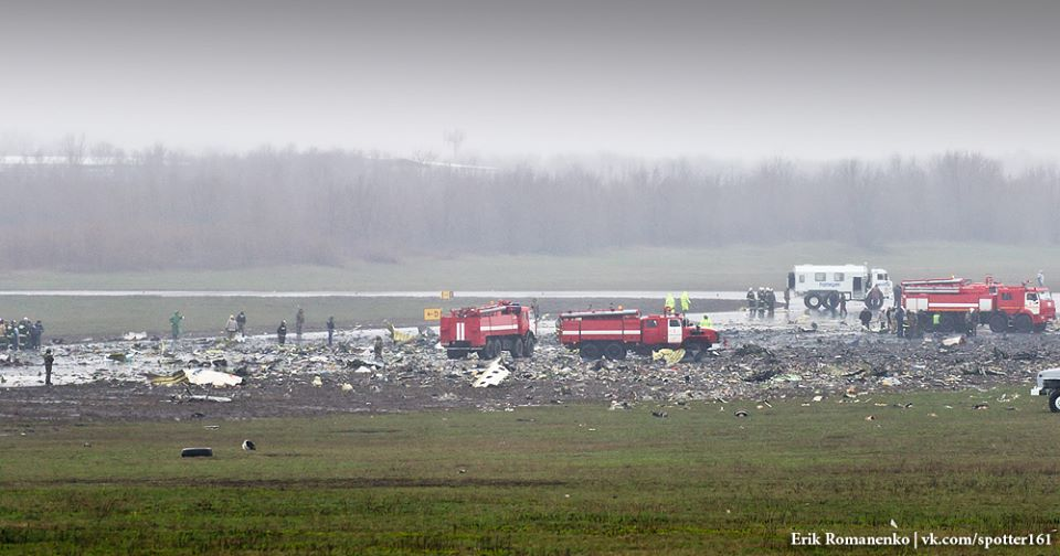 Crash site of flydubai Flight 981 at Rostov-on-Don Airport.